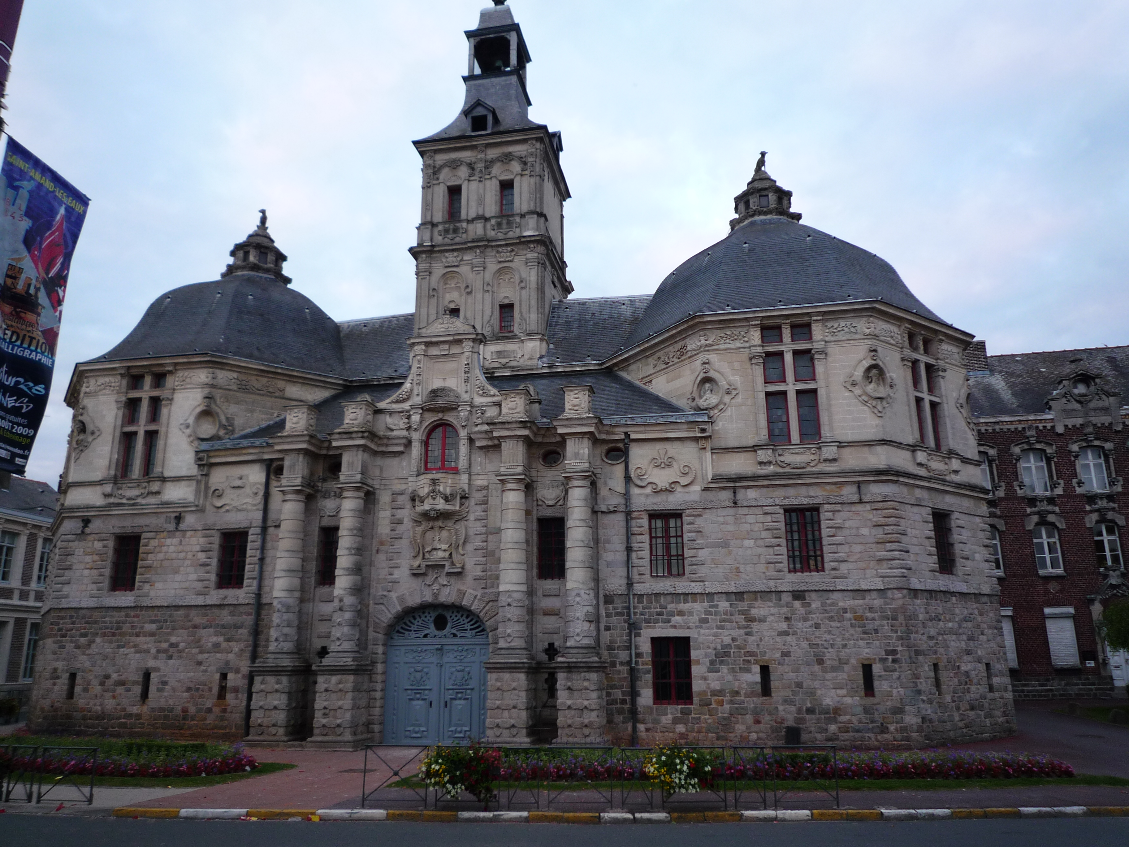 The former town hall of Saint-Amand-les-Eaux, Nord, France.